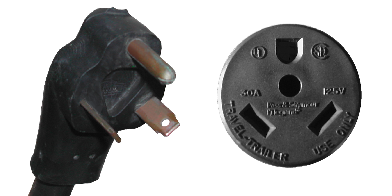 Photograph of a NEMA TT-30 plug (left) and receptacle (right). TT stands for Travel-Trailer and indicates the use of them.